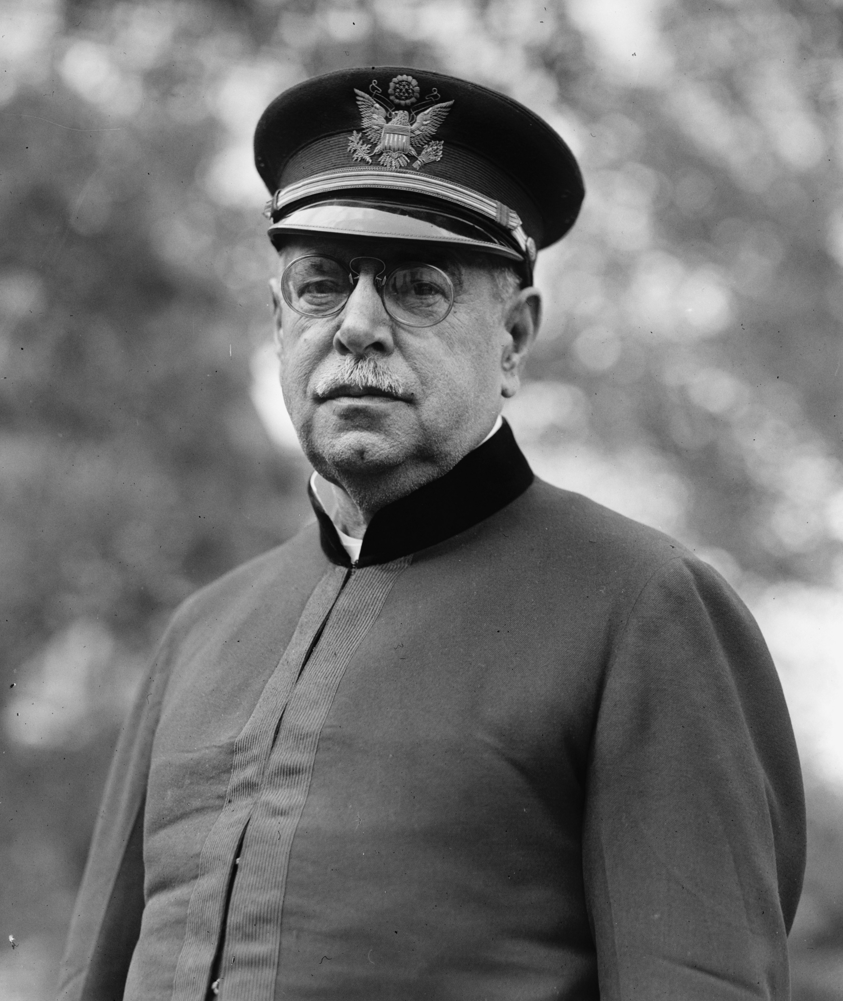 Title: John Phillip Sousa, 11/3/22 Abstract/medium: National Photo Company Collection (Library of Congress) Physical description: 1 negative